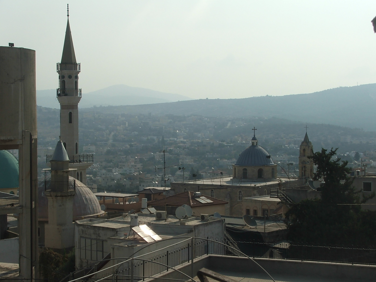 Photo fortress, Geography of Israel